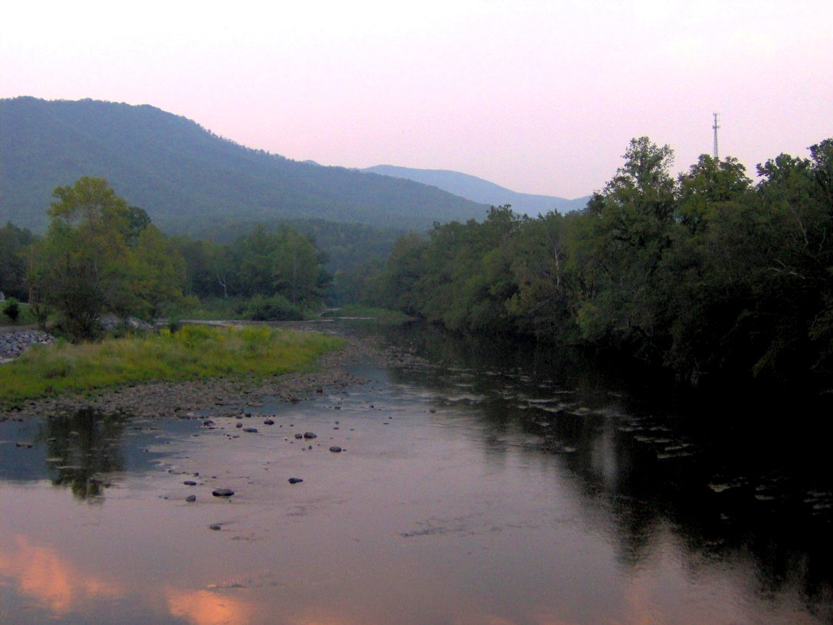 The Pigeon River in Hartford, Tennessee.